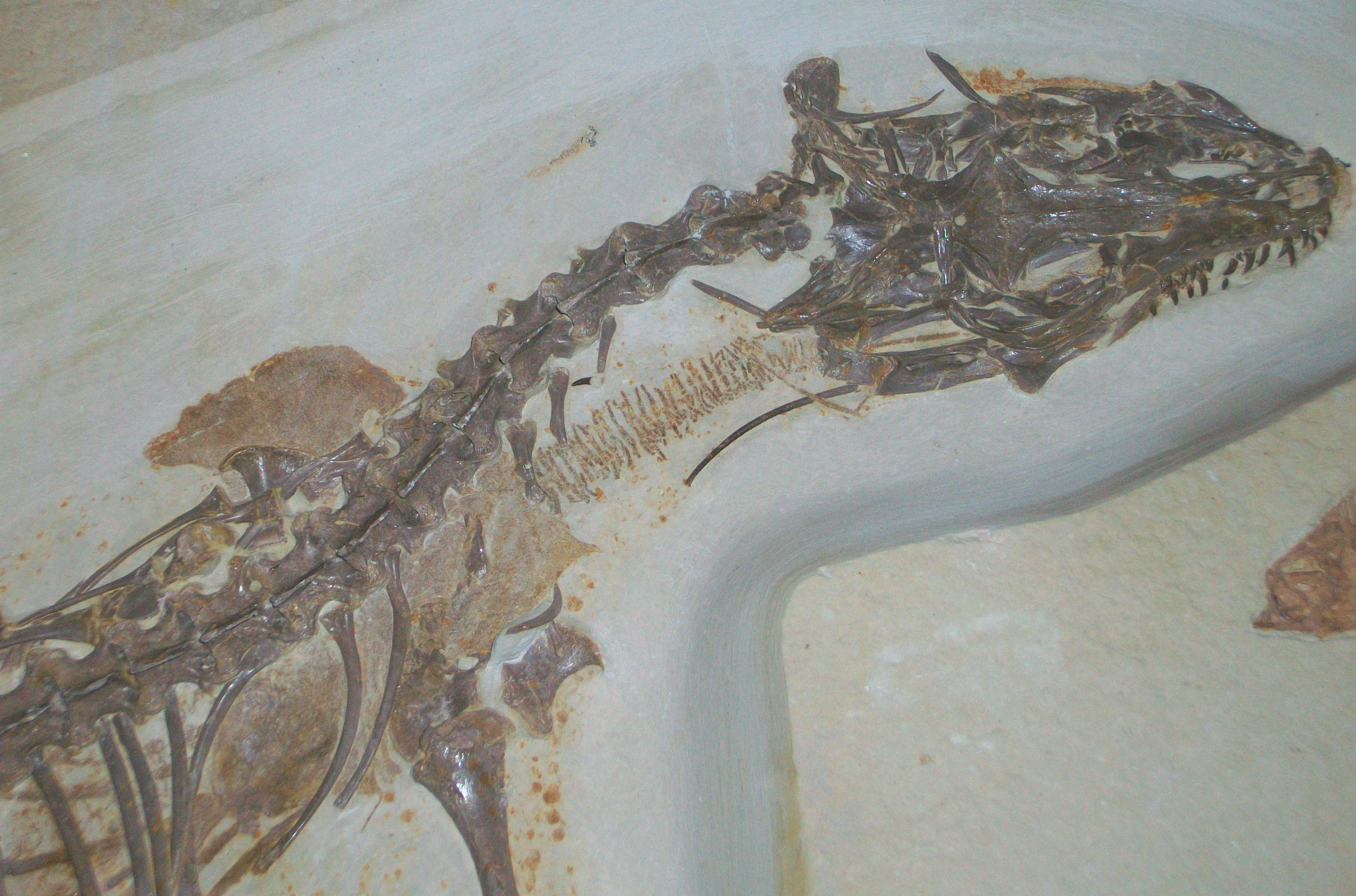 Close-up of the head of a fossil of Saniwa ensidens in the Field Museum of Natural History.